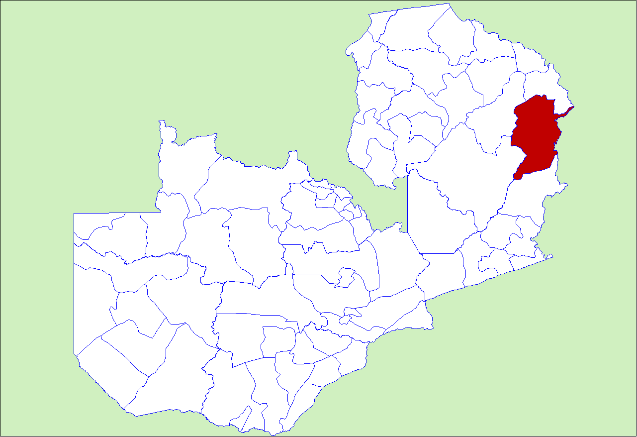 District locator in Zambia